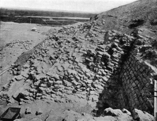 Vertical layers 11 to 15 of the Layer Pyramid of Zawiet el-Aryan, as seen in the Lepsius trench looking East. Photography dating to the 1910-1911 excavations of Reisner and Fisher.